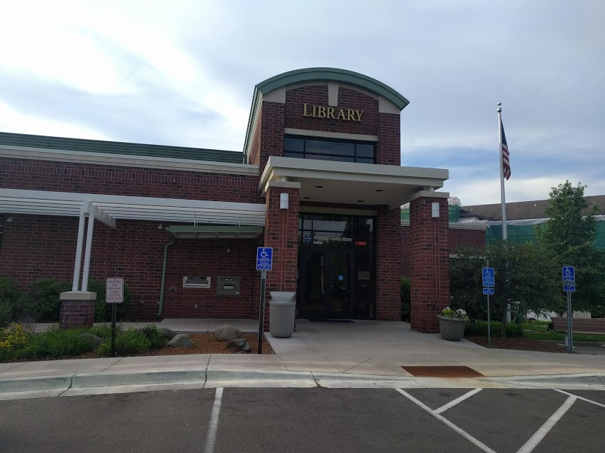 Photo of the Edina Library in its current location.